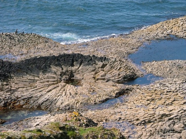 Basalt Rock Formation, in the Mull Lava Group of Palaeocene age. Taken on the way to the fossilised tree. I am indebted to Keith Burns for this explanation of the fascinating geological processes involved here : "On the beach, basalt columns radiate from a central point on the shore near the fossil tree. The columns are formed due to the cooling effect of a standing tree on the lava flowing around the tree trunk. The tree draws heat from the lava. When the lava shrinks, it forms hexagonal shrinkage cracks which form columns whose axes are parallel to the direction of heat flow. So the hexagonal columns radiate from the tree trunk which is drawing heat from the lava. If lava is in a level slab losing heat to the air above it, it cools from the top down and forms the more familiar vertical hexagonal columns (e.g. Giant's Causeway, Staffa, Sampson's Ribs on Arthur's Seat in Edinburgh). There must have been a forest that was engulfed by the slowly flowing lava." This example of columnar basalt is located on the coast of the island of Mull, Scotland.